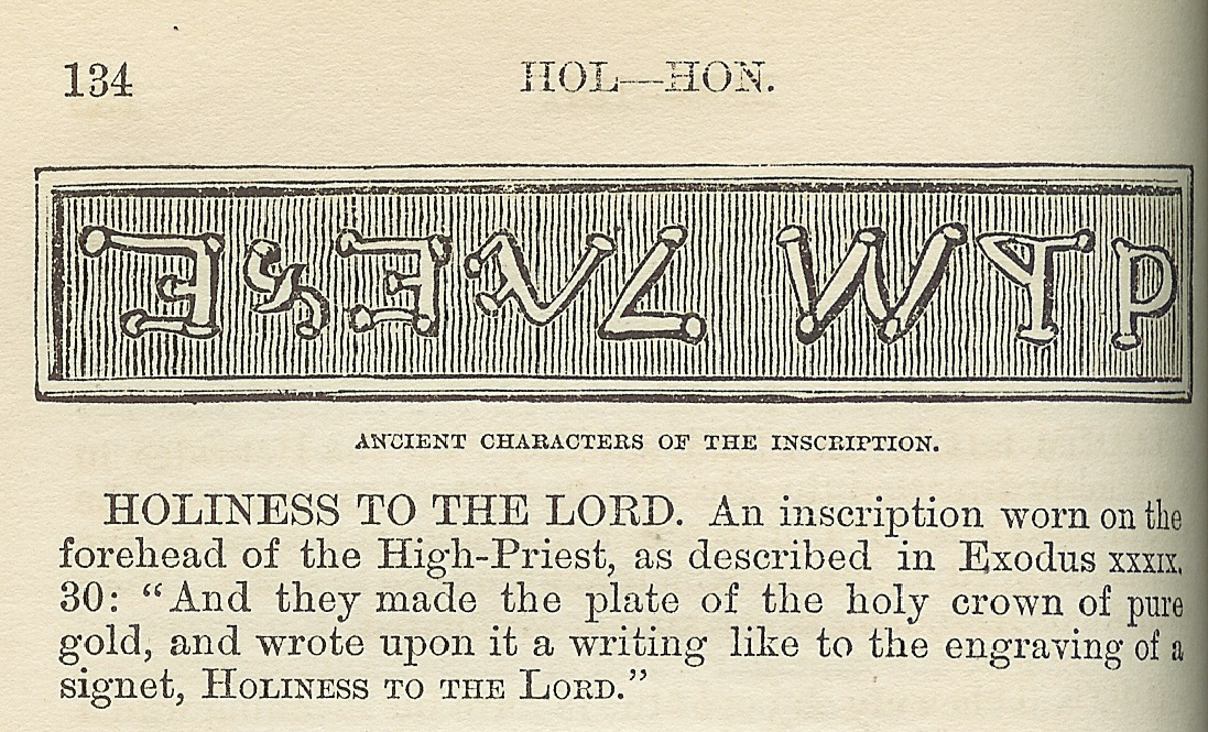 Scan of illustration relevant to Bat Creek Inscription, from Macoy, Robert, General History, Cyclopedia and Dictionary of Freemasonry, Masonic Publishing Co., New York, 3rd ed., 1868, p. 134. An attempt to reconstruct how קדש ליהוה would look in paleo-Hebrew script which ends up resembling Samaritan more.